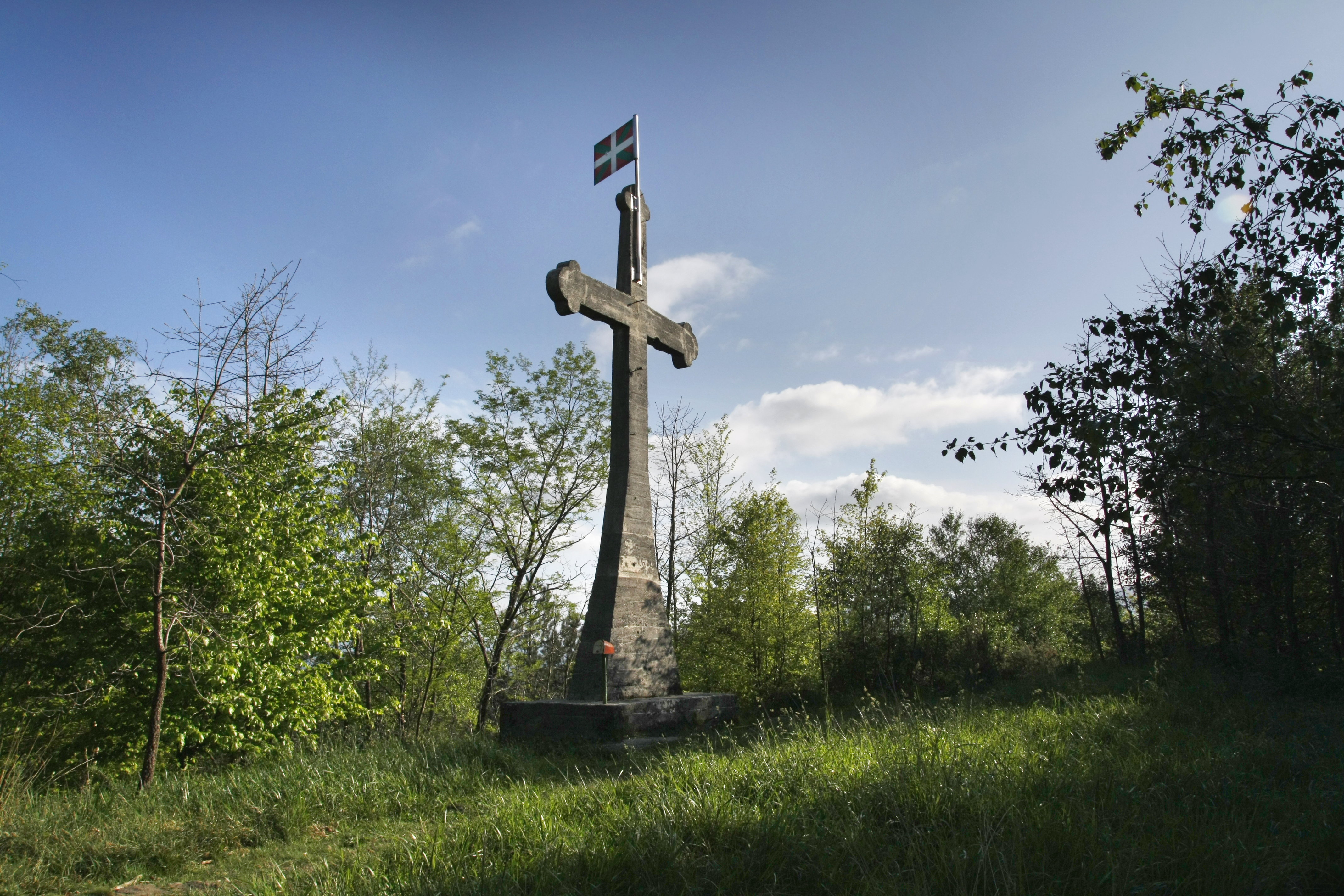 Cross at the Belkoain mountain